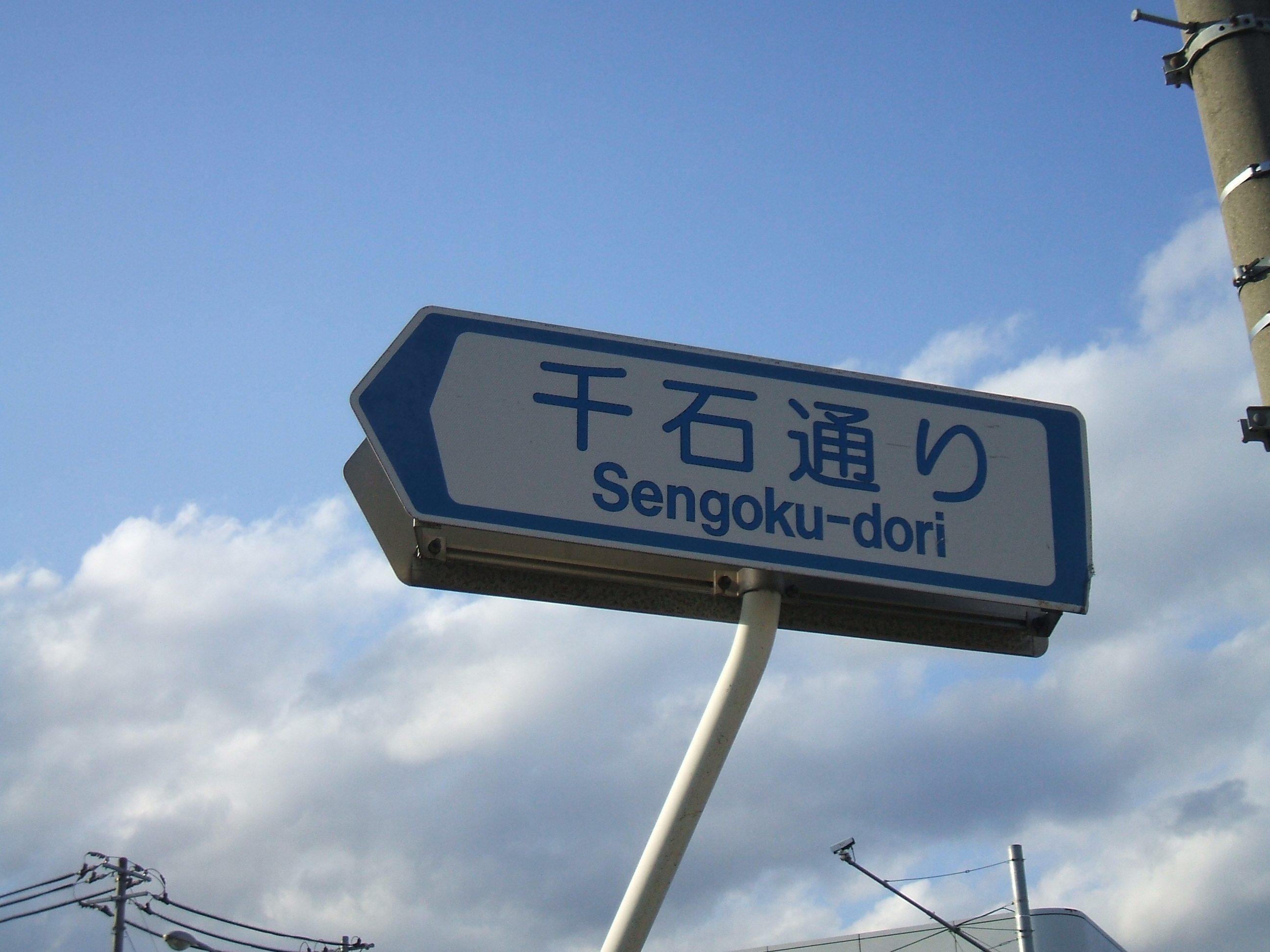 A sign of "Sengoku Dori" street of Aizuwakamatsu, Fukushima. At Gounohara Crossing.